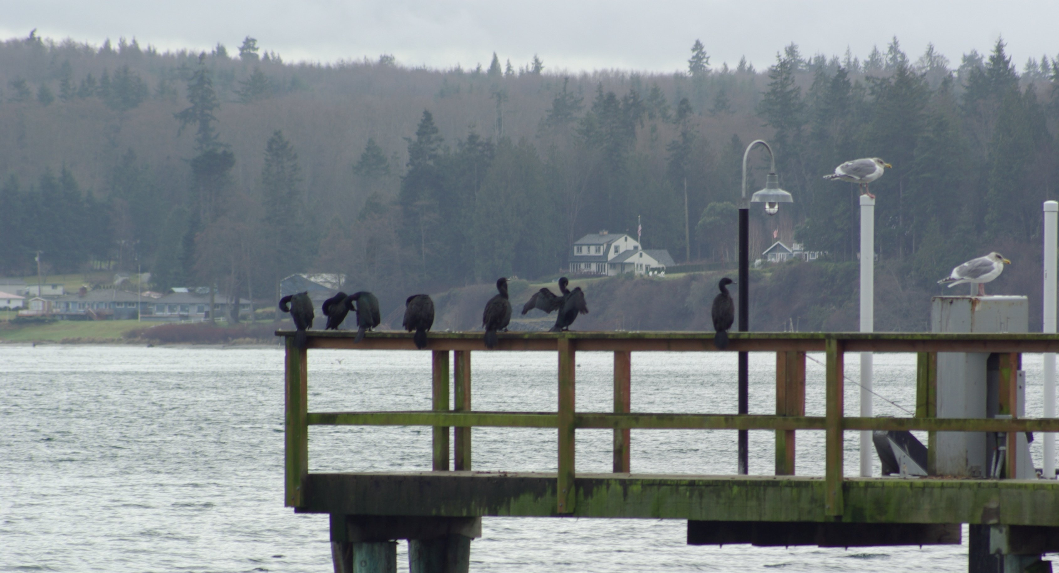 Pelagic Cormorants and Glaucous-winged Gulls on a dock in the Kitsap Peninsula of Washington State, USA